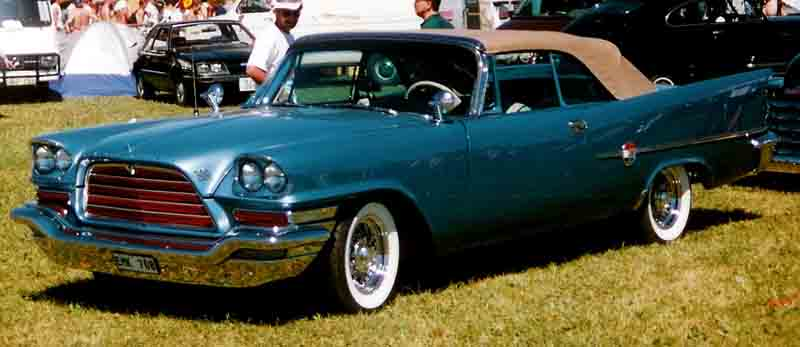 Chrysler 300 Convertible 1959